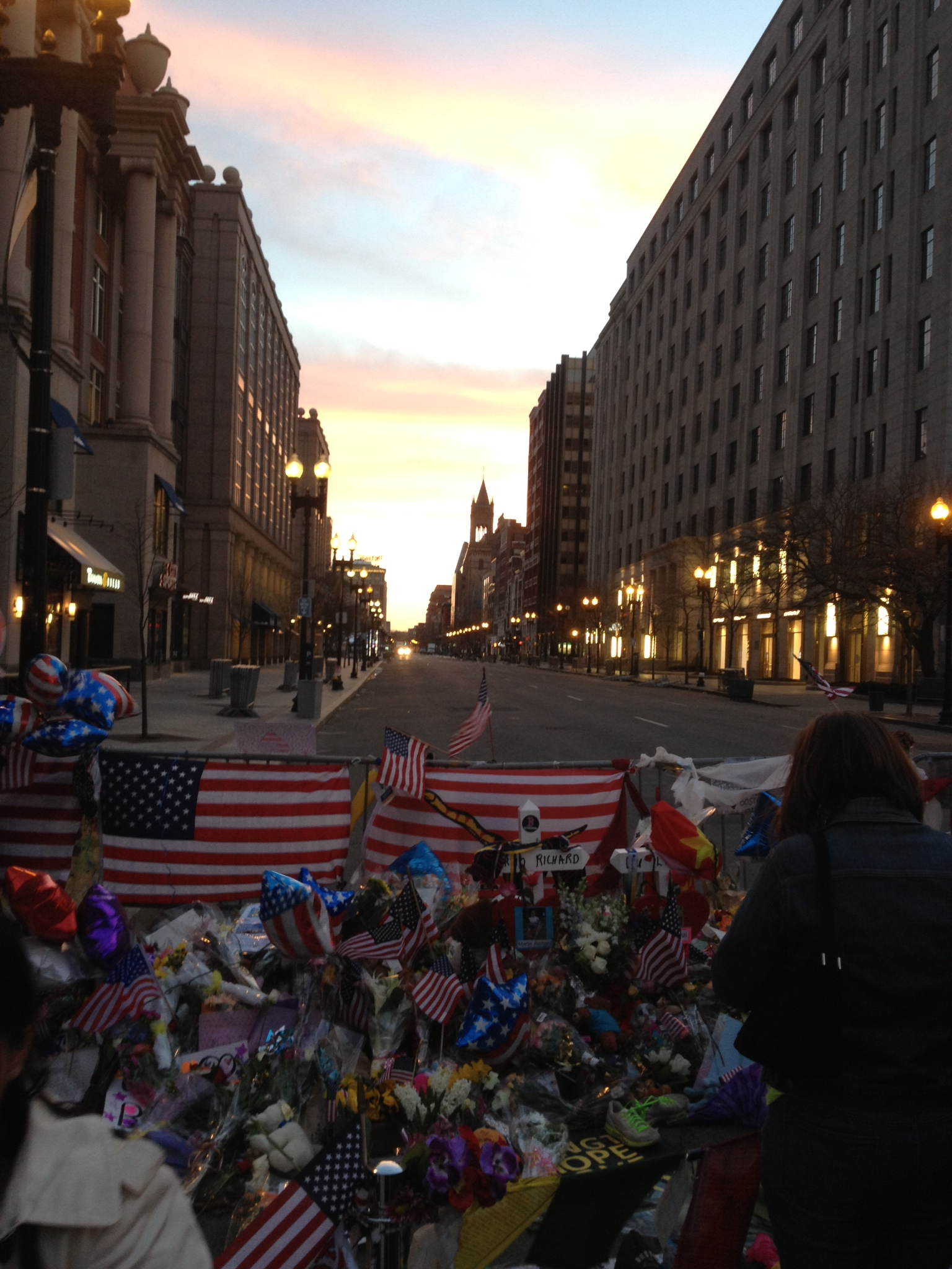 The makeshift shrine outside the barricades on Boylston Street Saturday evening